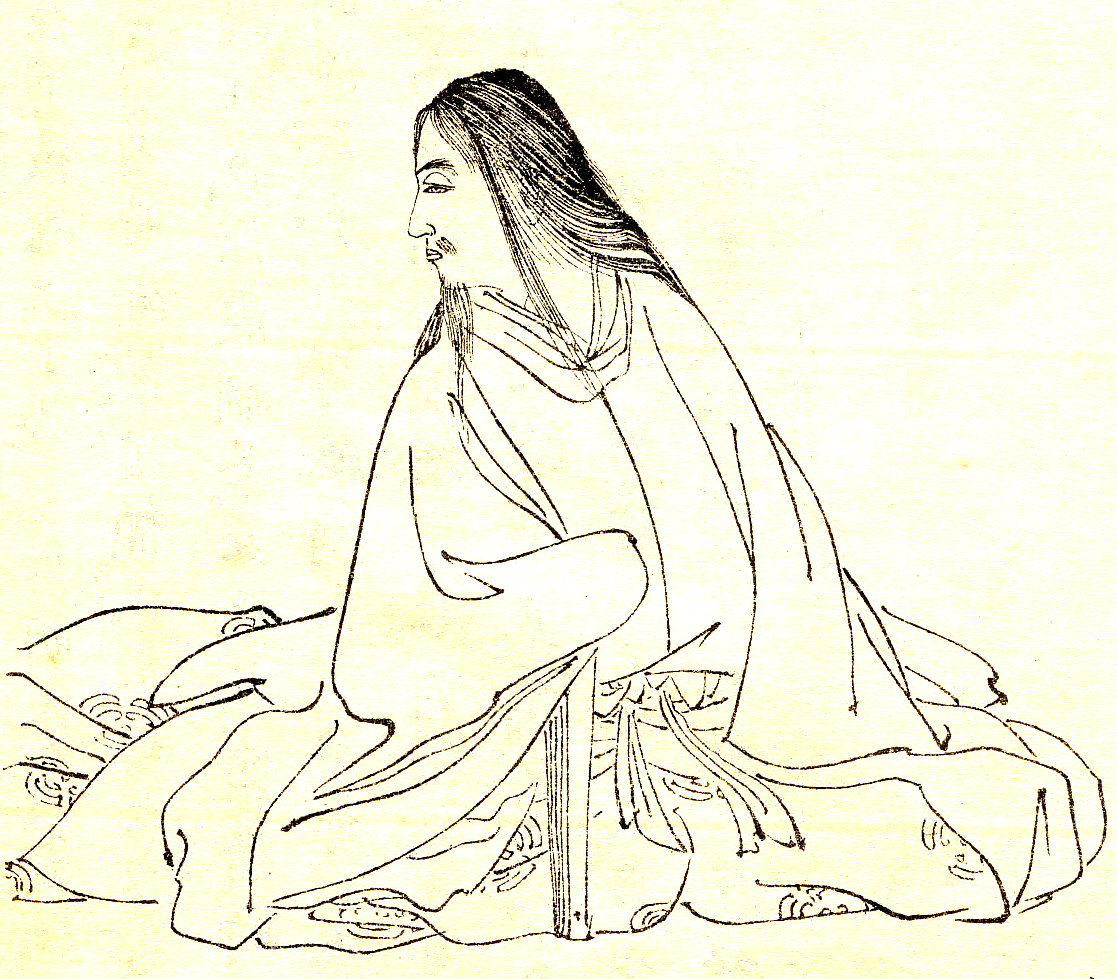 Tsunesada Shinno (恒貞親王) was a member of the Imperial family in the Heian Period.This picture was drawn by Kikuchi Yosai（菊池容斎） who was a painter in Japan.